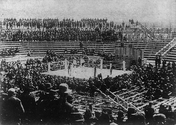 Boxing match: Corbett - Fitzsimmons fight. Persons in ring and audience; Carson City, Nevada.